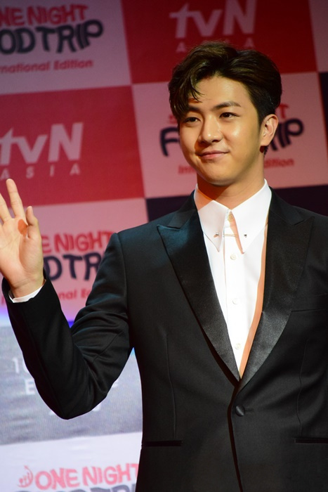 Thunder